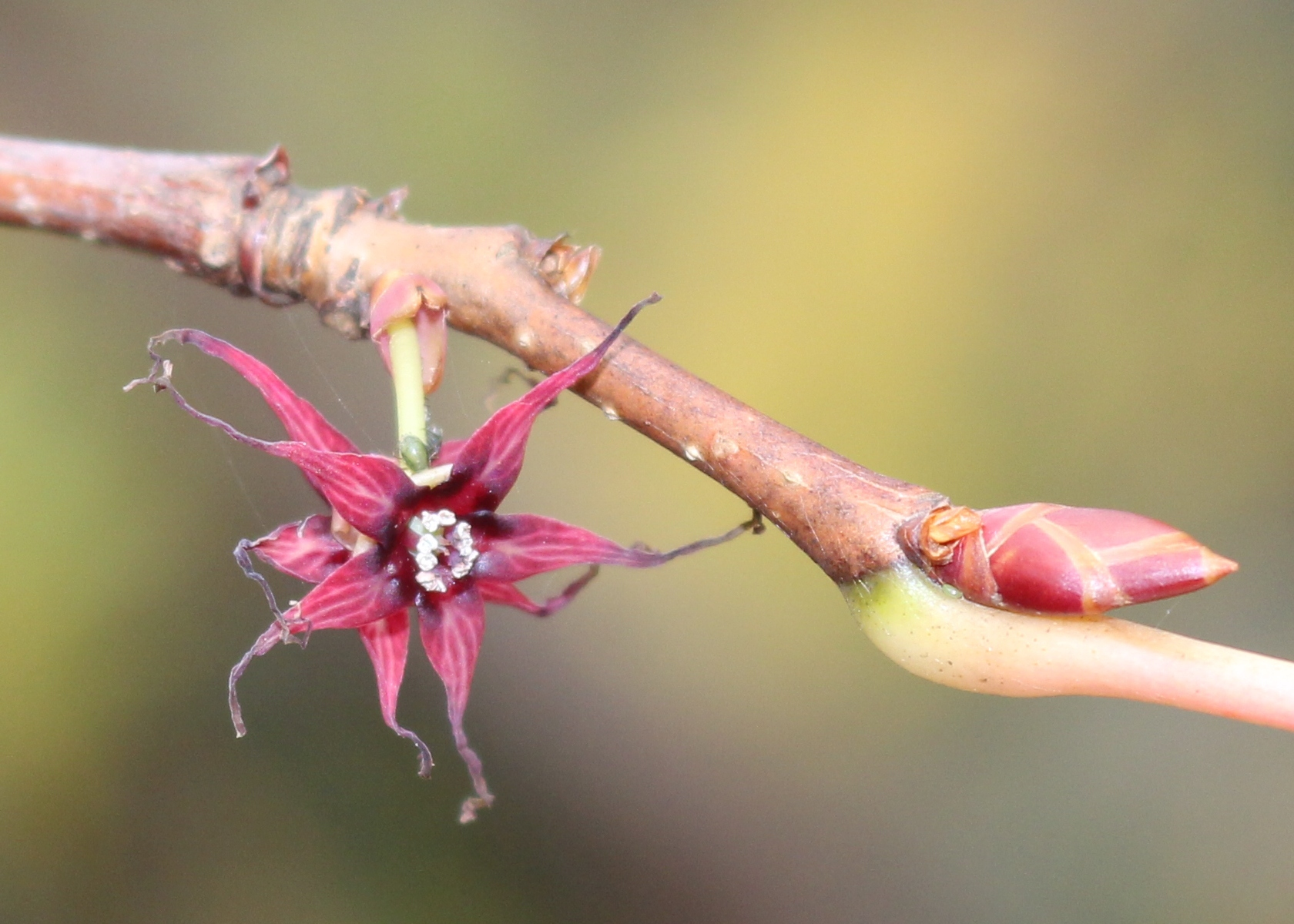 Disanthus cercidifolius in Mount Myōhō, Ibigawa, Gifu prefecture, Japan.